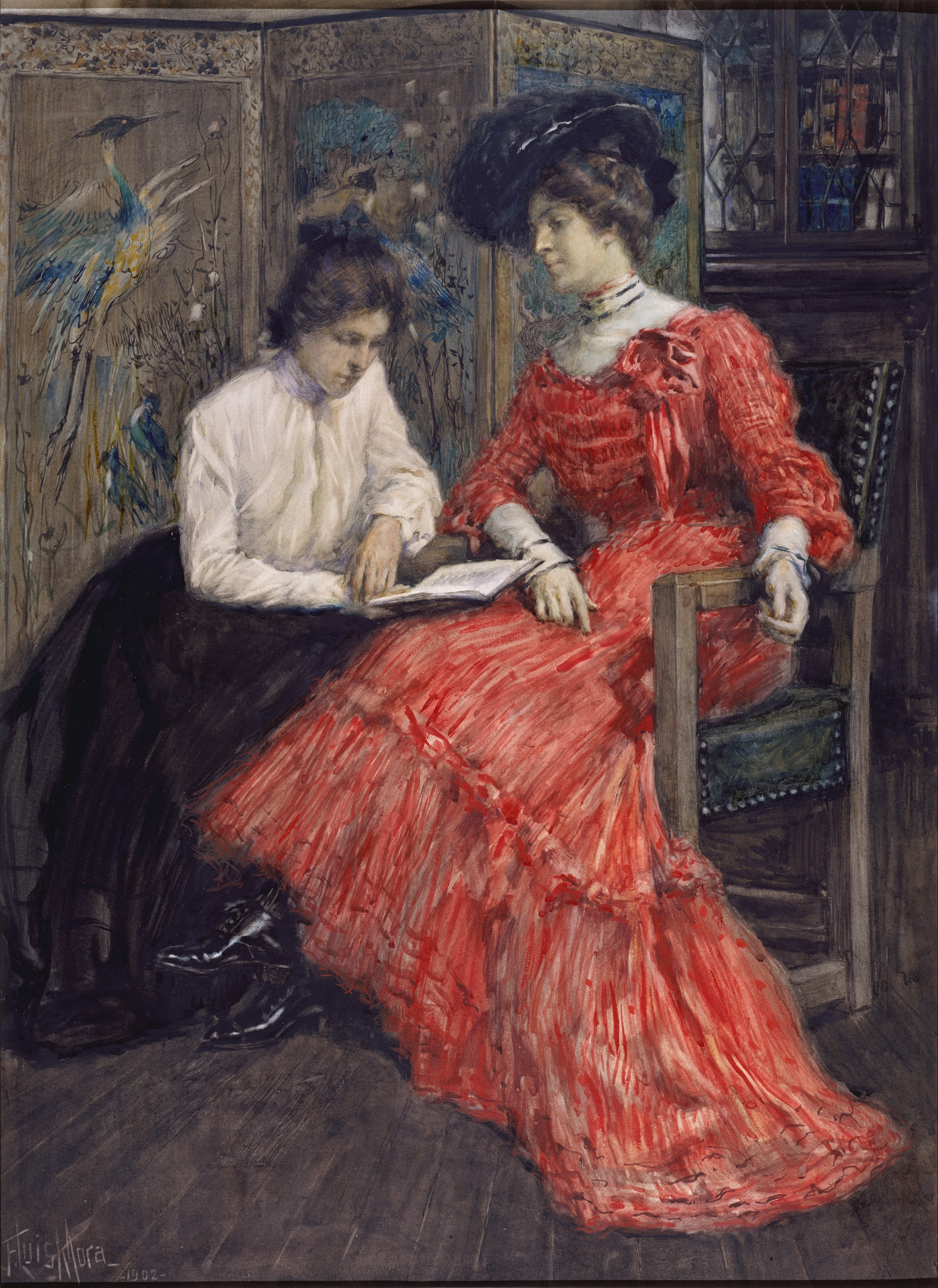 Mrs. F. Luis Mora and Her Sister Artist: F. Luis Mora (American (born Uruguay), Montevideo 1874–1940 New York) Date: 1902 Medium: Watercolor, gouache, and graphite on wove paper, mounted on cardboard Dimensions: 29 3/4 x 22 in. (75.6 x 55.9 cm) Classification: Drawings Credit Line: Gift of Margaret and Raymond J. Horowitz, 1965